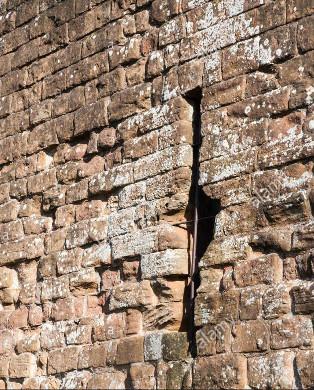 Червоний пісковик